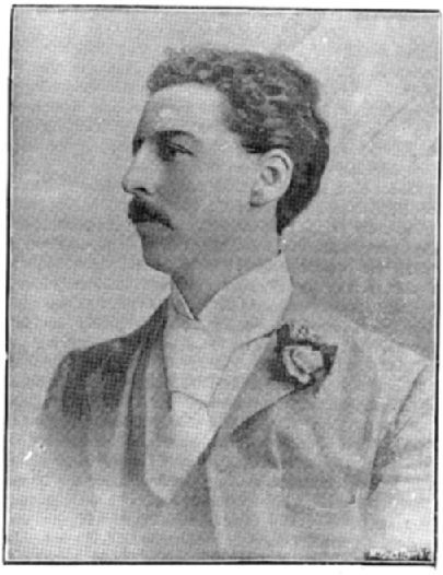 Portrait of Ernest Denis Hoben (3 February 1864 – 3 February 1918): a New Zealand rugby union administrator who was the figure most responsible for the founding of the New Zealand Rugby Football Union in 1892.